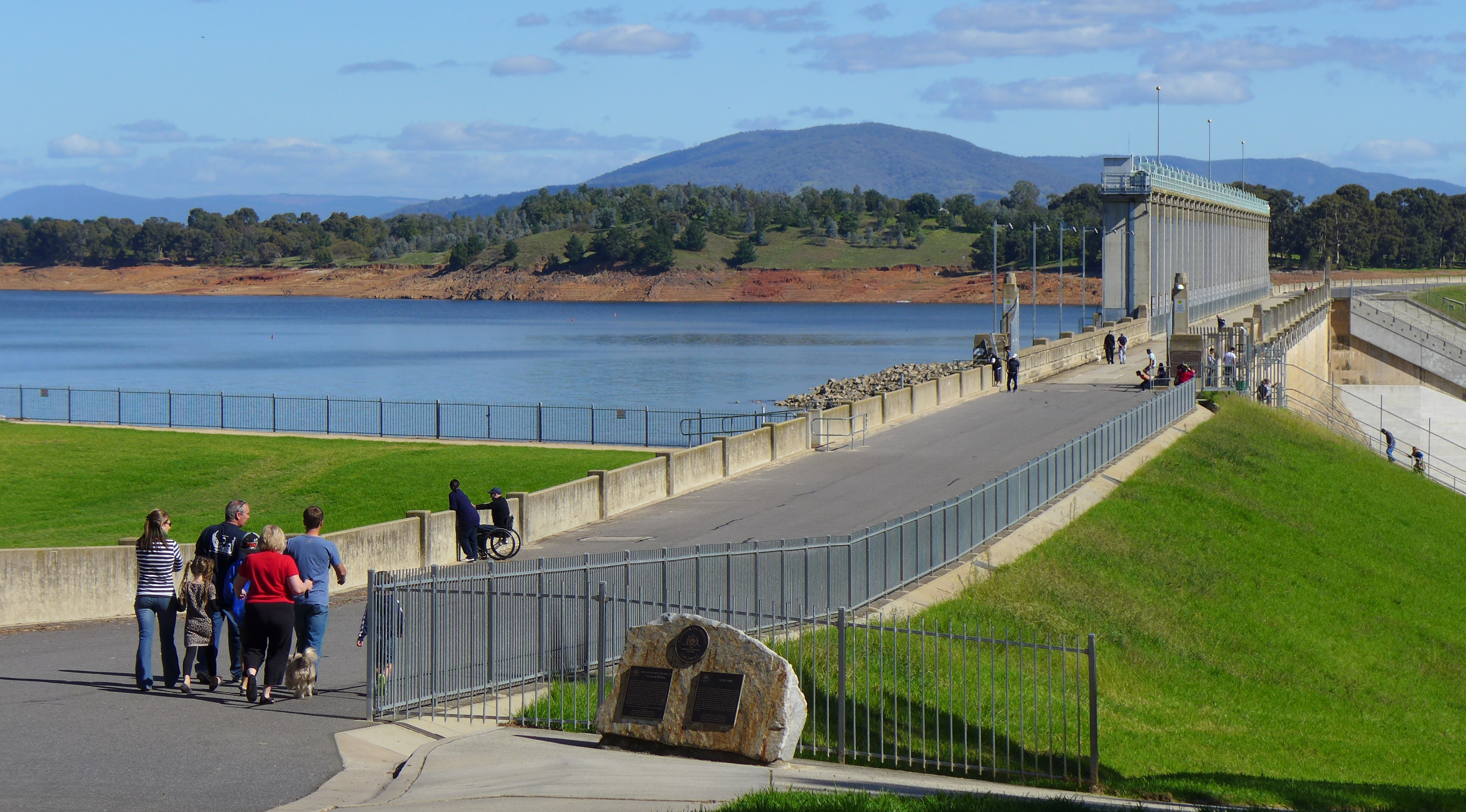 Side-on view of the Hume Dam.